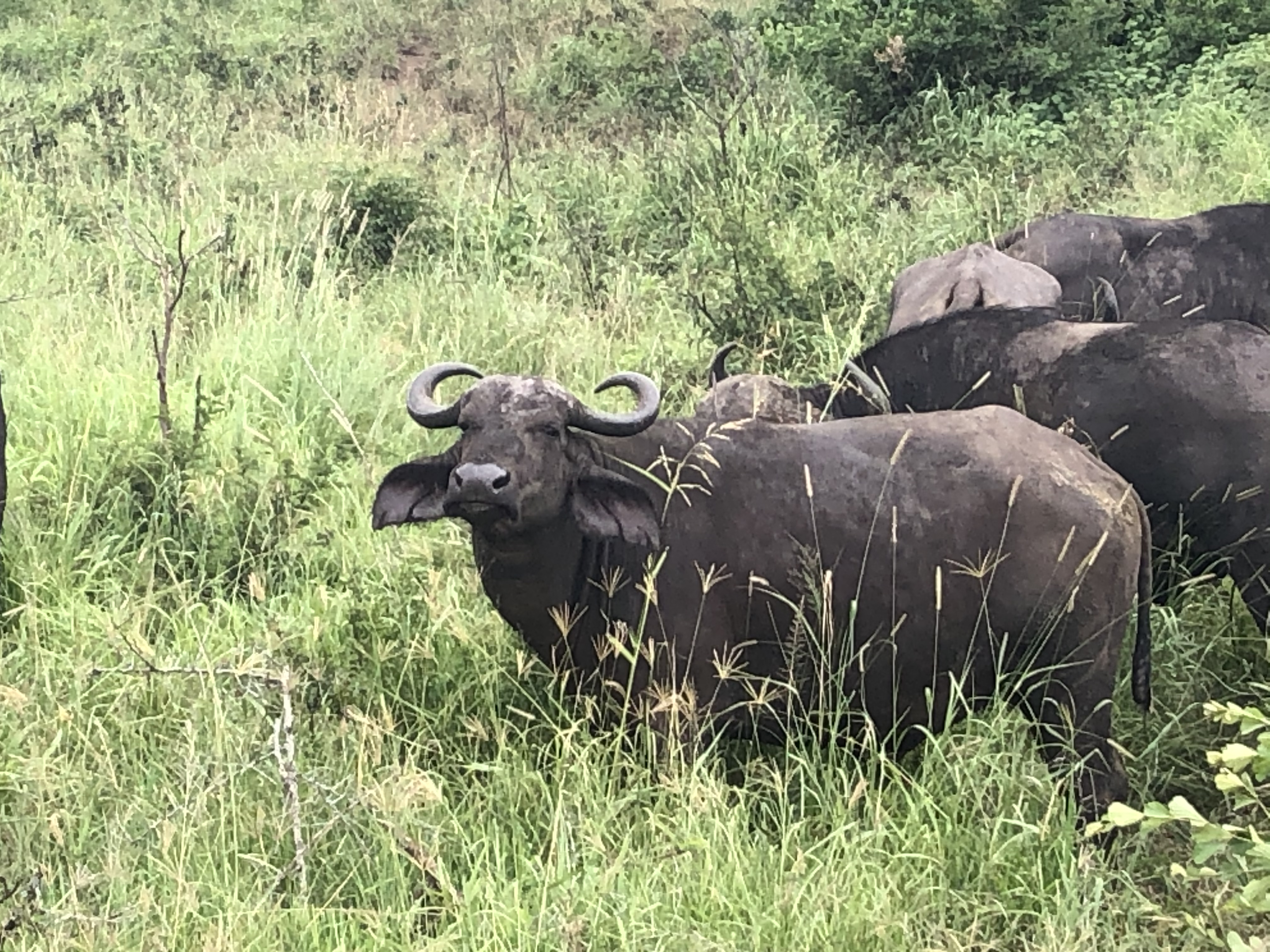 This is an image with the theme "Africa on the Move or Transport" from: South Africa